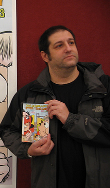 Spanish comic writer and artist Manel Fontdevila